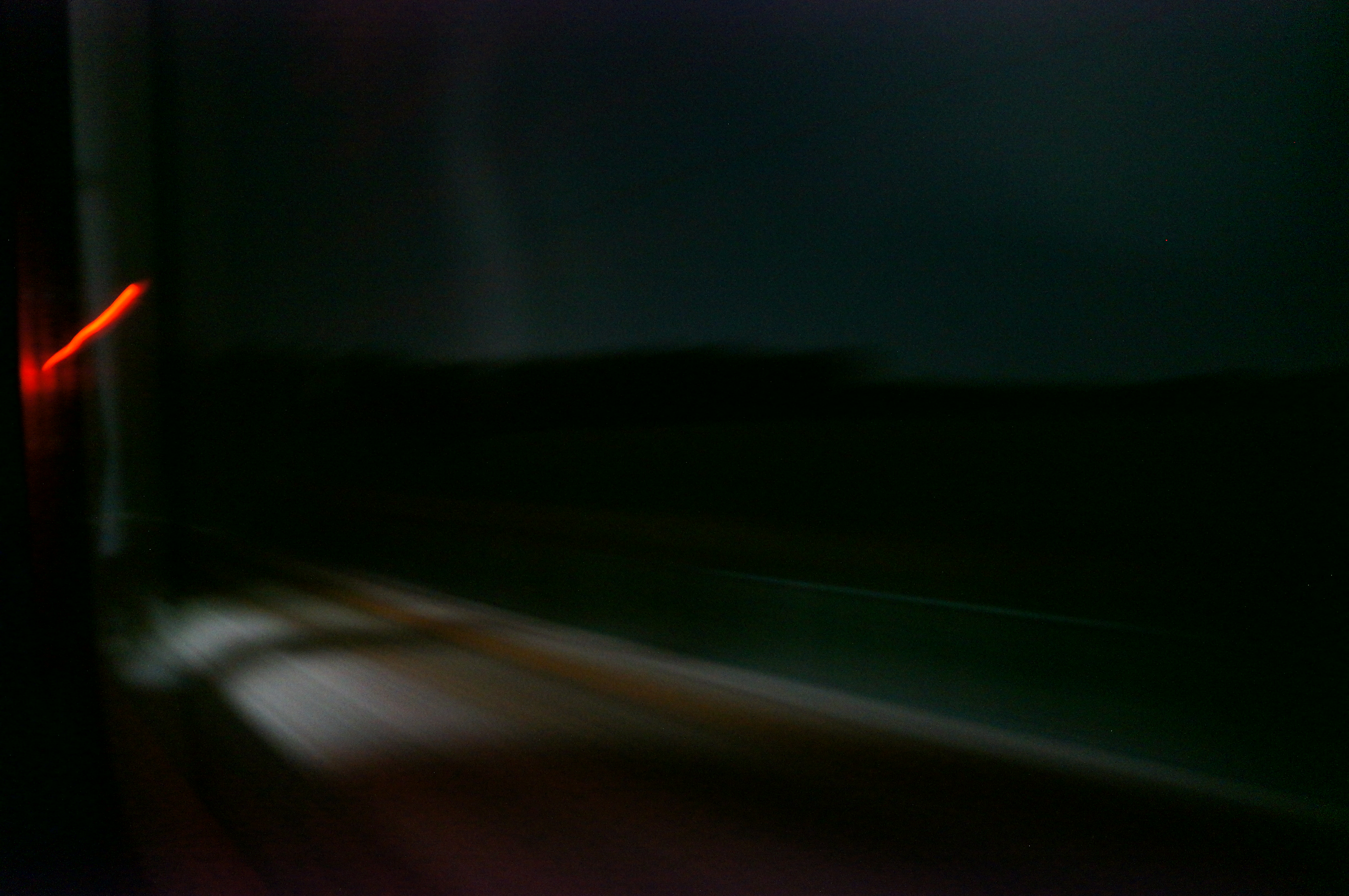 201606 Z9 passes Qiaonan Station